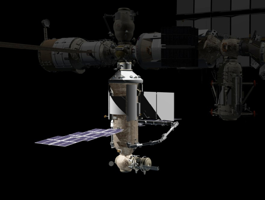 Screencap I edited (darkened remainder of station) from NASA 3D model.